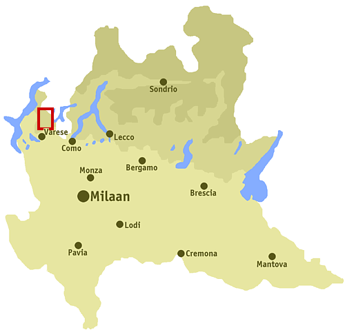 Position of the valley Valganna